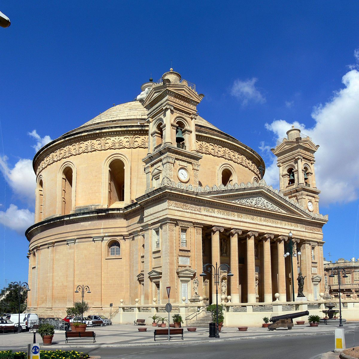 The Rotunda in Mosta, Malta, also called the Mosta Dome